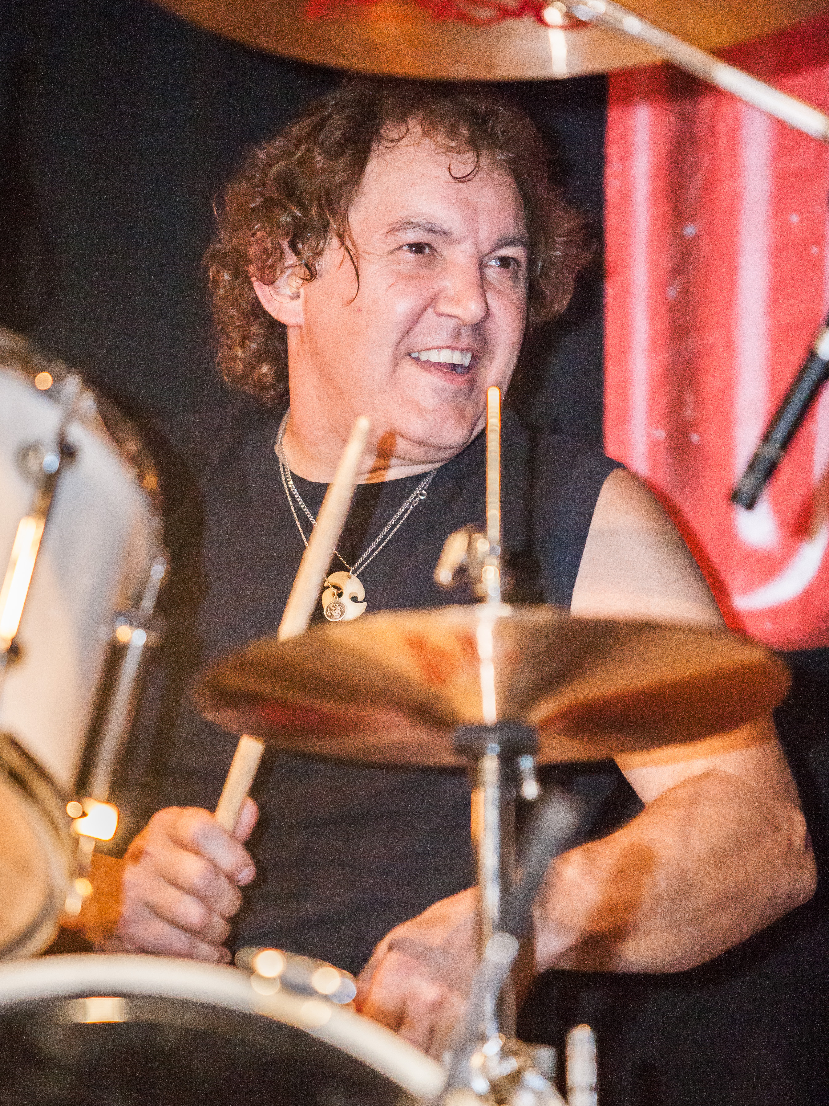 Drummer Andy Parker of the band UFO at music club “Kantine” in Cologne